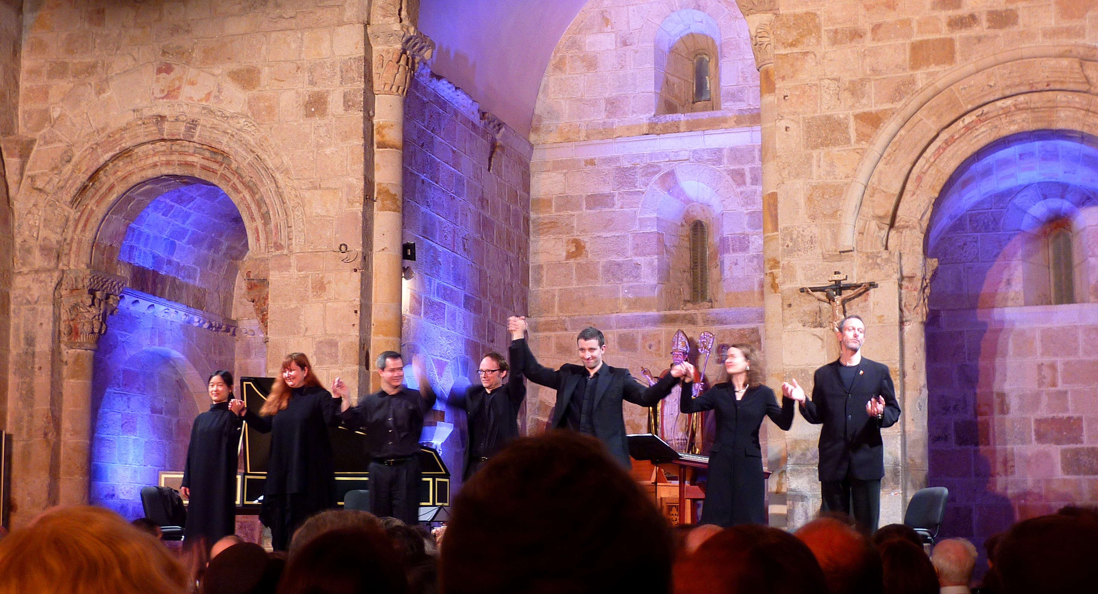 Concert of the group L'Arpeggiata and the bass João Fernandes in the church of San Cipriano (Saint Cyprian), Pórtico de Zamora Festival, Spain.